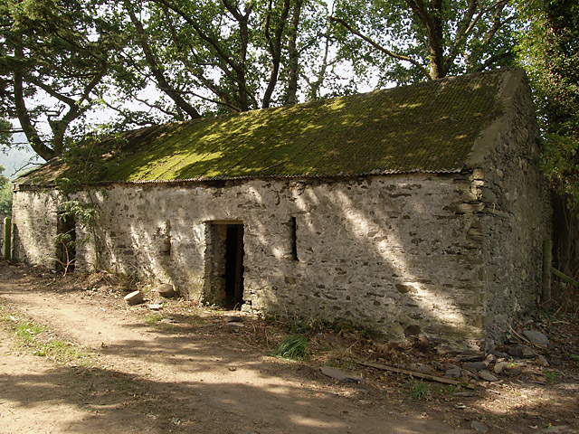 Ballakerka, Sulby. Isle of Man. This old shed is all that remains of Ballakerka farm, the farm house and other outbuildings having been demolished several years ago.